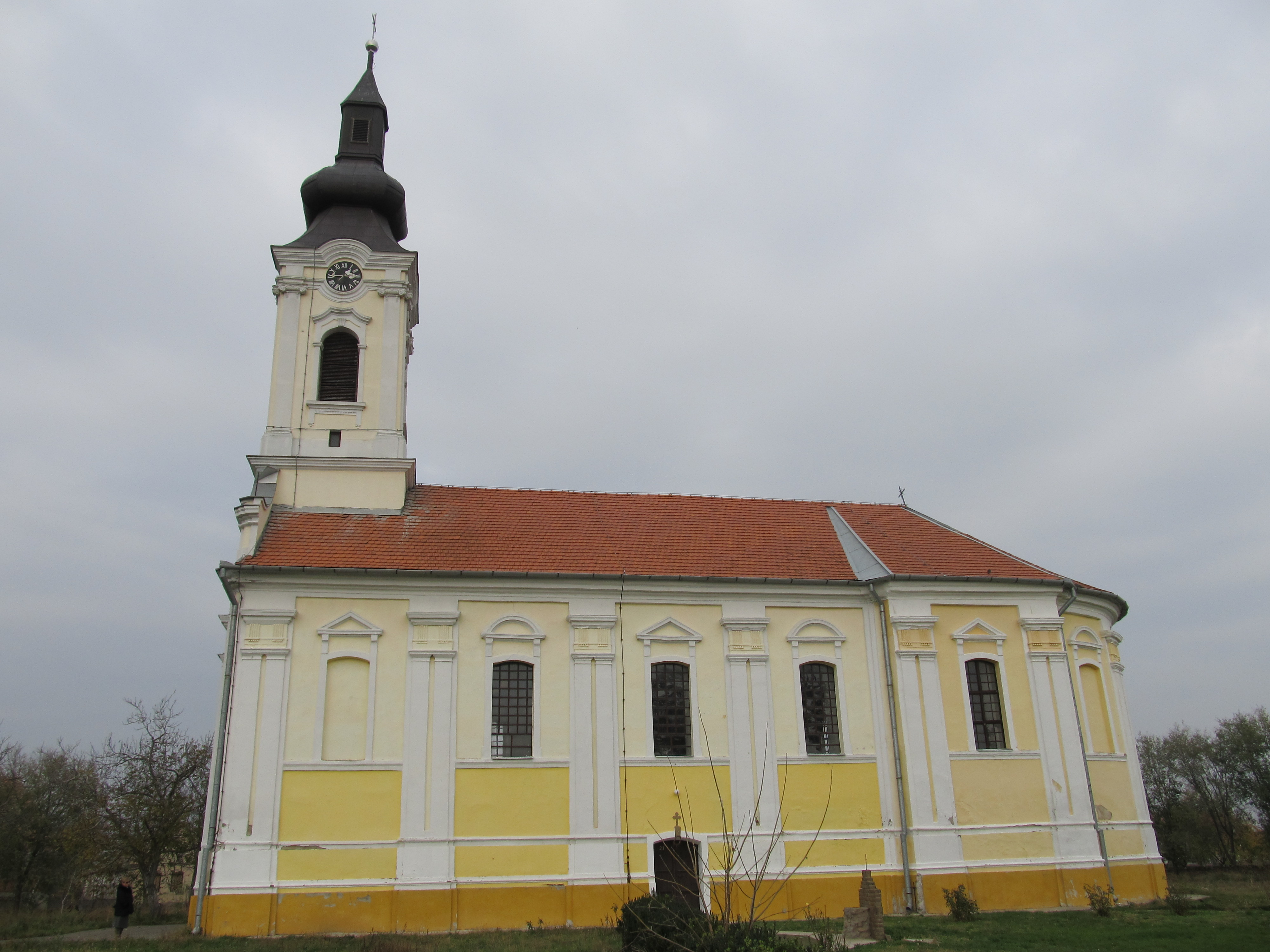 Serbian Orthodox church of Saint Nicholas in Neuzina - southern facade